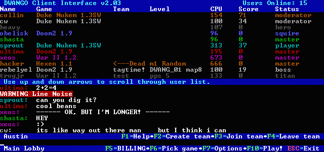 Screenshot of a DWANGO lobby, Austin server